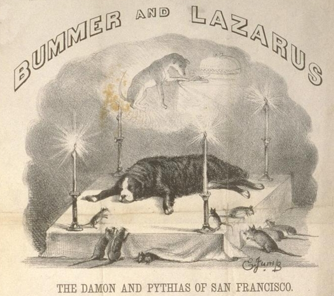 Bummer and Lazarus, the Damon and Pythias of San Francisco. Their lives and their deaths. Their separation and their final reunion in the dog star-- the place where good dogs go. An elegiac, satirical poem by Trem. Depicts Bummer lying in state Lithograph; 16 x 19 cm.